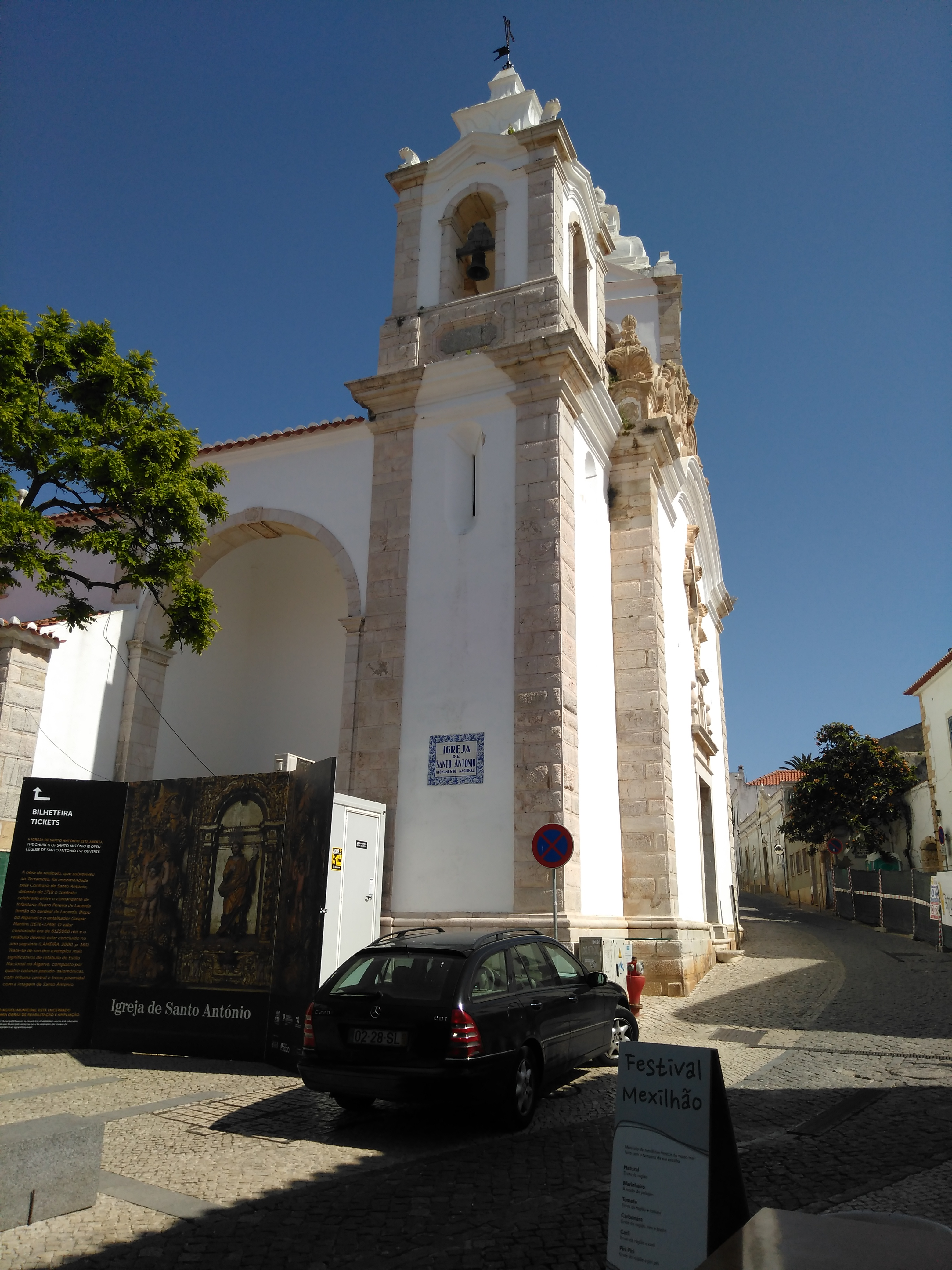 Maintenance work being done